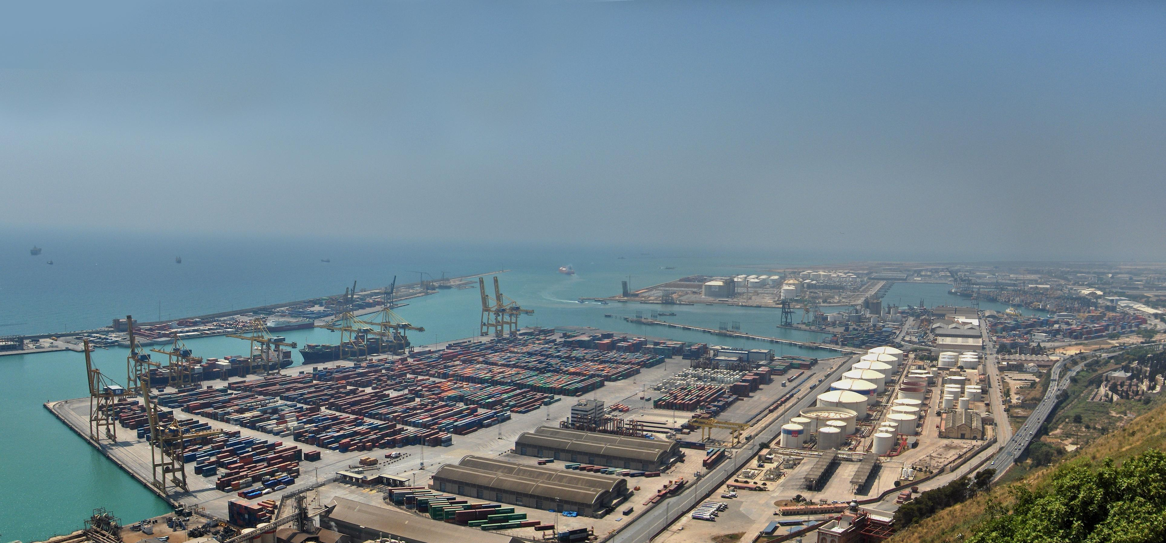 View of Barcelona harbour from Montjuic hill